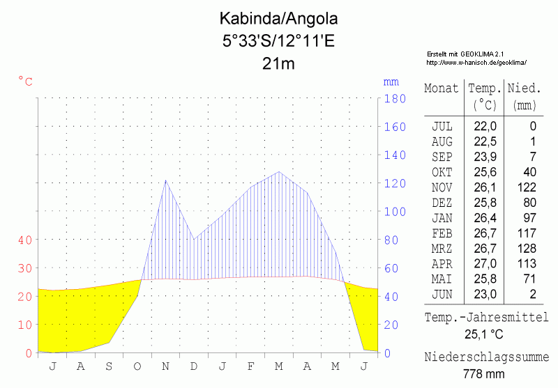 climate chart in the format by Walther and Lieth